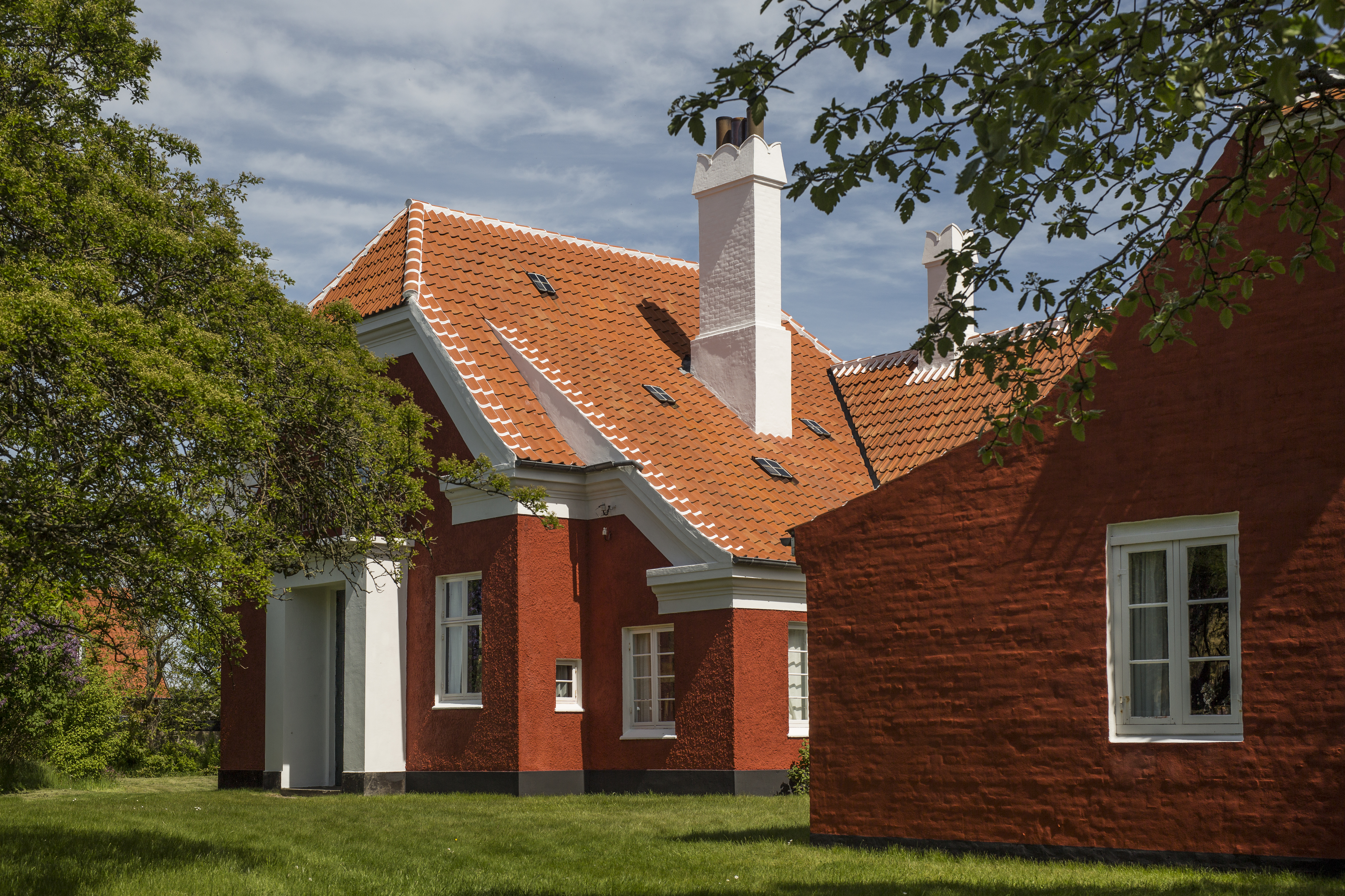 The home of Anna and Michael Ancher, now museum